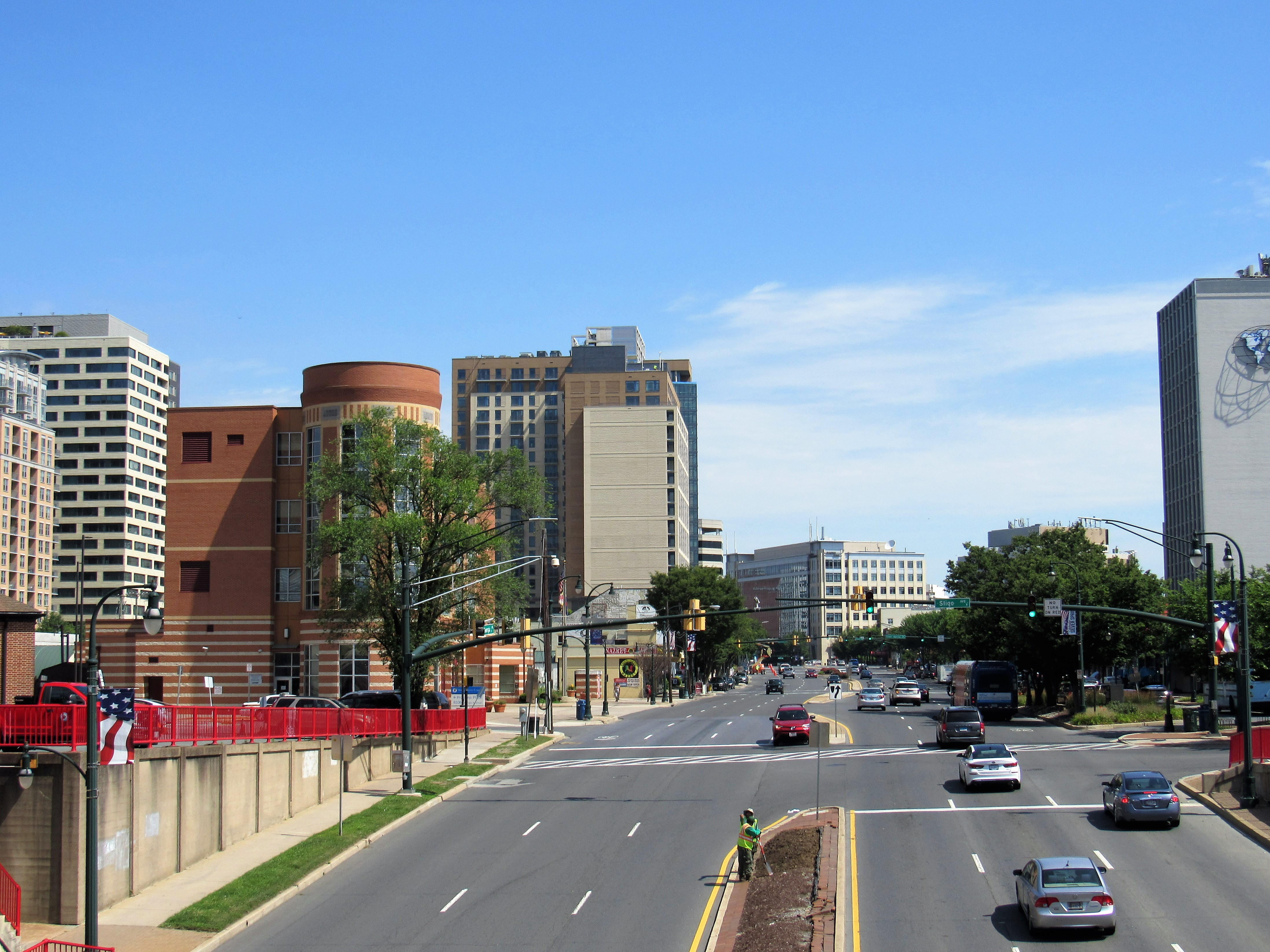 Georgia Avenue (U.S. 29) heading northbound in downtown Silver Spring, Maryland.